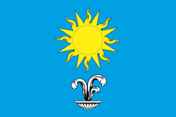 Flag of Kislovodsk, Stavropol Territory, Russia